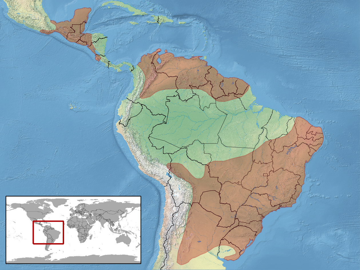 geographic distribution of Crotalus durissus (Native: Argentina; Bolivia, Plurinational States of; Brazil; Colombia; Paraguay; Peru; Uruguay; Venezuela); shaded parts of the range in Central America refer to Crotalus simus